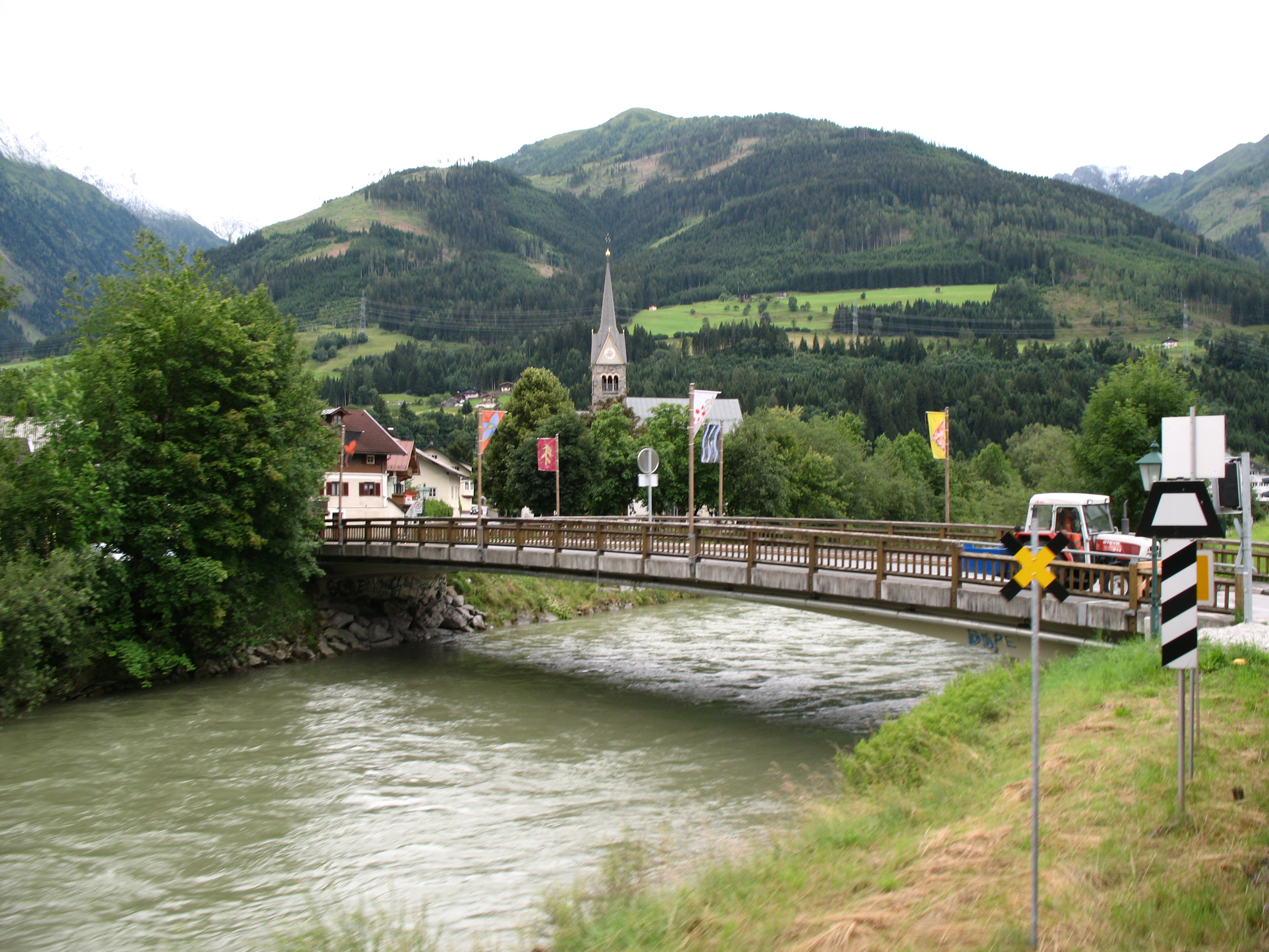 Pinzgaubahn, Niedernsill, Austria